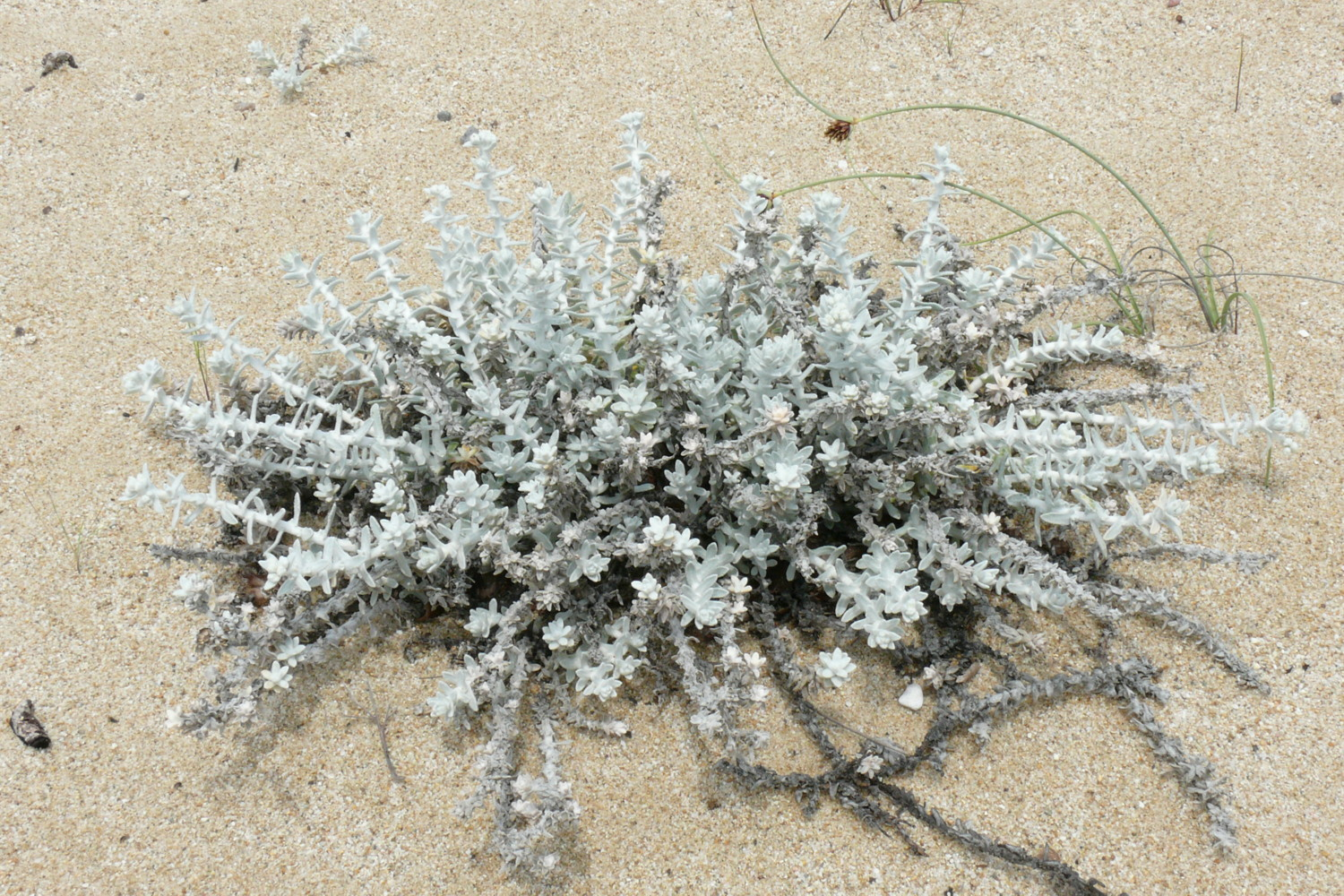 Achillea maritima subsp. maritima, Photo from Thasos